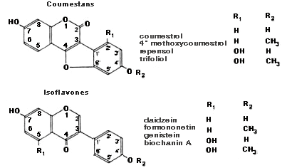 Chemical detail of most common phytoestrogens done on December 15 2007 for using at the article Phytoestrogens